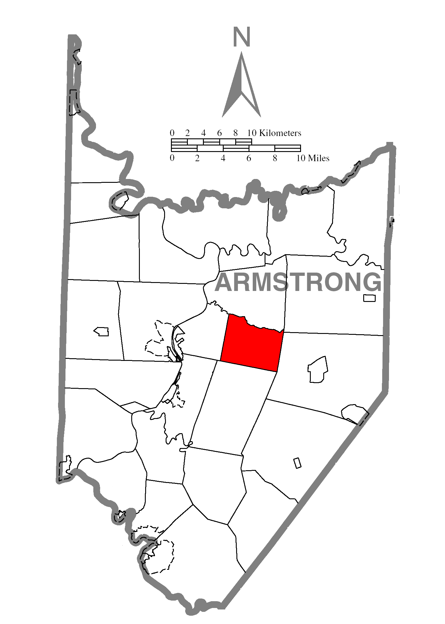 A map of Armstrong County showing Valley Township, Pennsylvania (alternate) highlighted on the map.